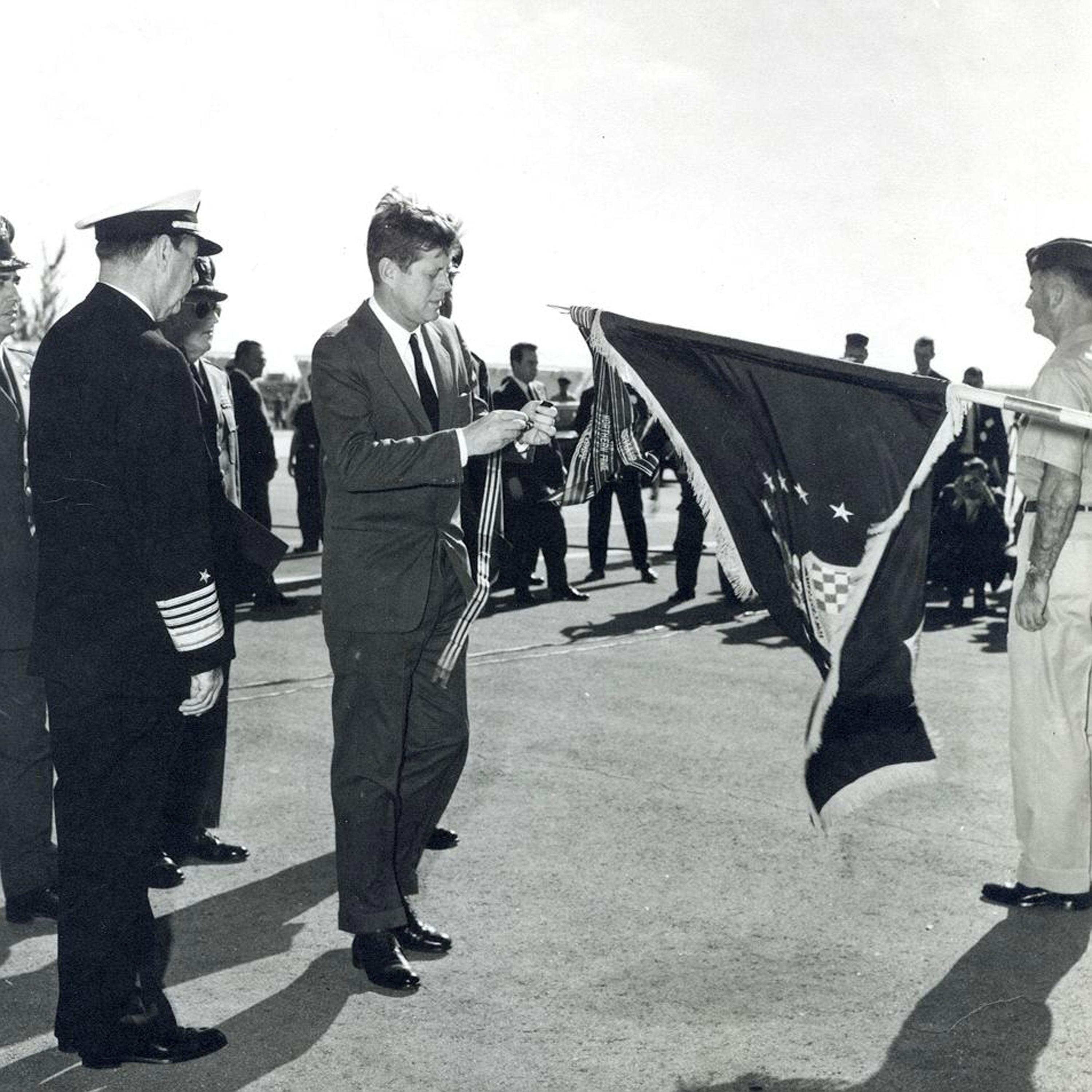 President John F. Kennedy places a streamer on the colors of the 363rd Tactical Reconnaissance Wing to present the Air Force Outstanding Unit Award in recognition of the unit's actions associated with the Cuban Missile Crisis. The 363rd TRW was redesignated as the 363rd Training Group and reactivated March 26, 2007 at Dhafra Air Base, United Arab Emirates.